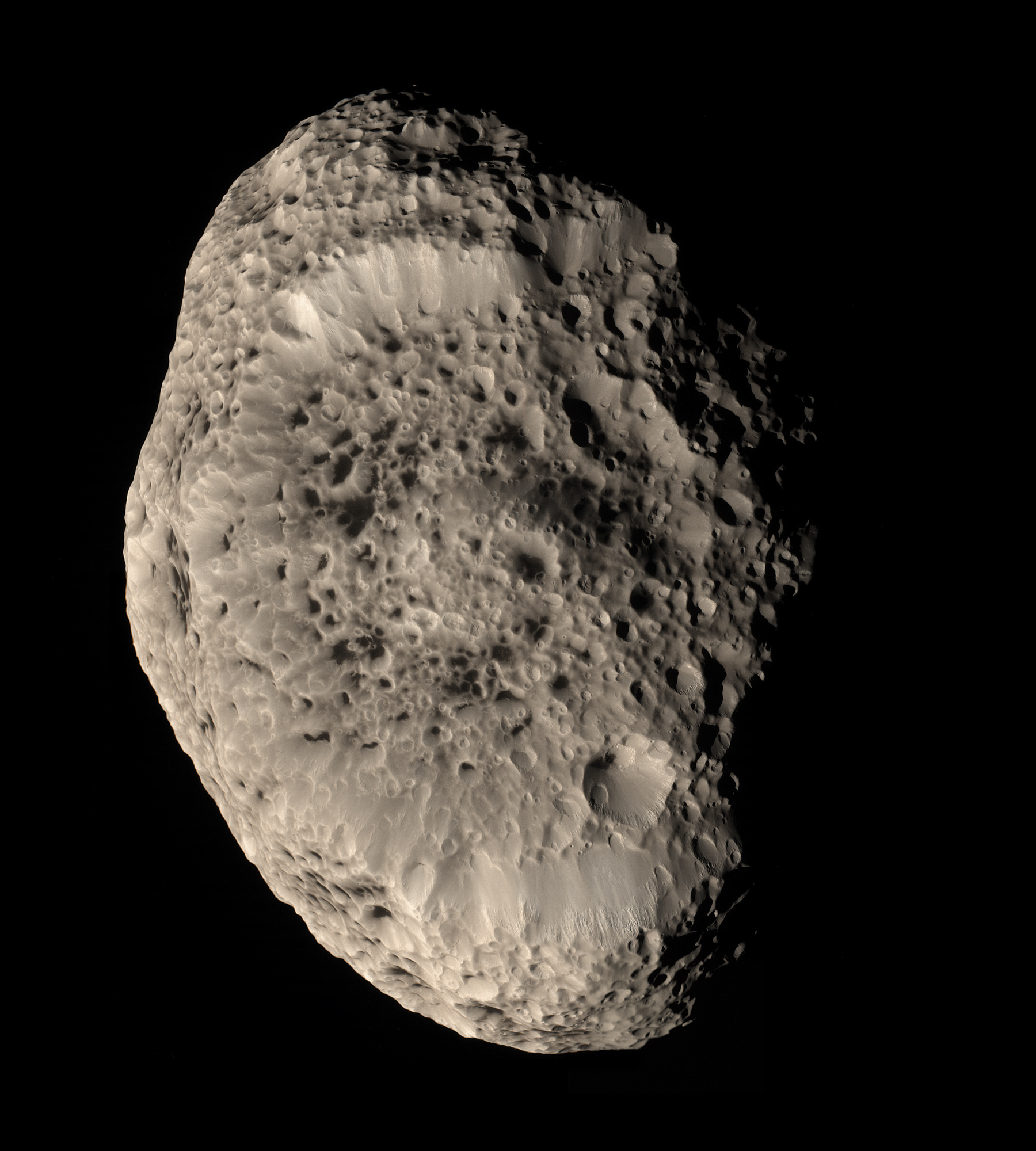 Approximately true-color mosaic of Saturn's moon Hyperion. Composed of several narrow-angle frames and processed to match Hyperion's natural color. Taken during Cassini's flyby of this lumpy moon on 26th September 2005. Credit: NASA / JPL / SSI / Gordan Ugarkovic